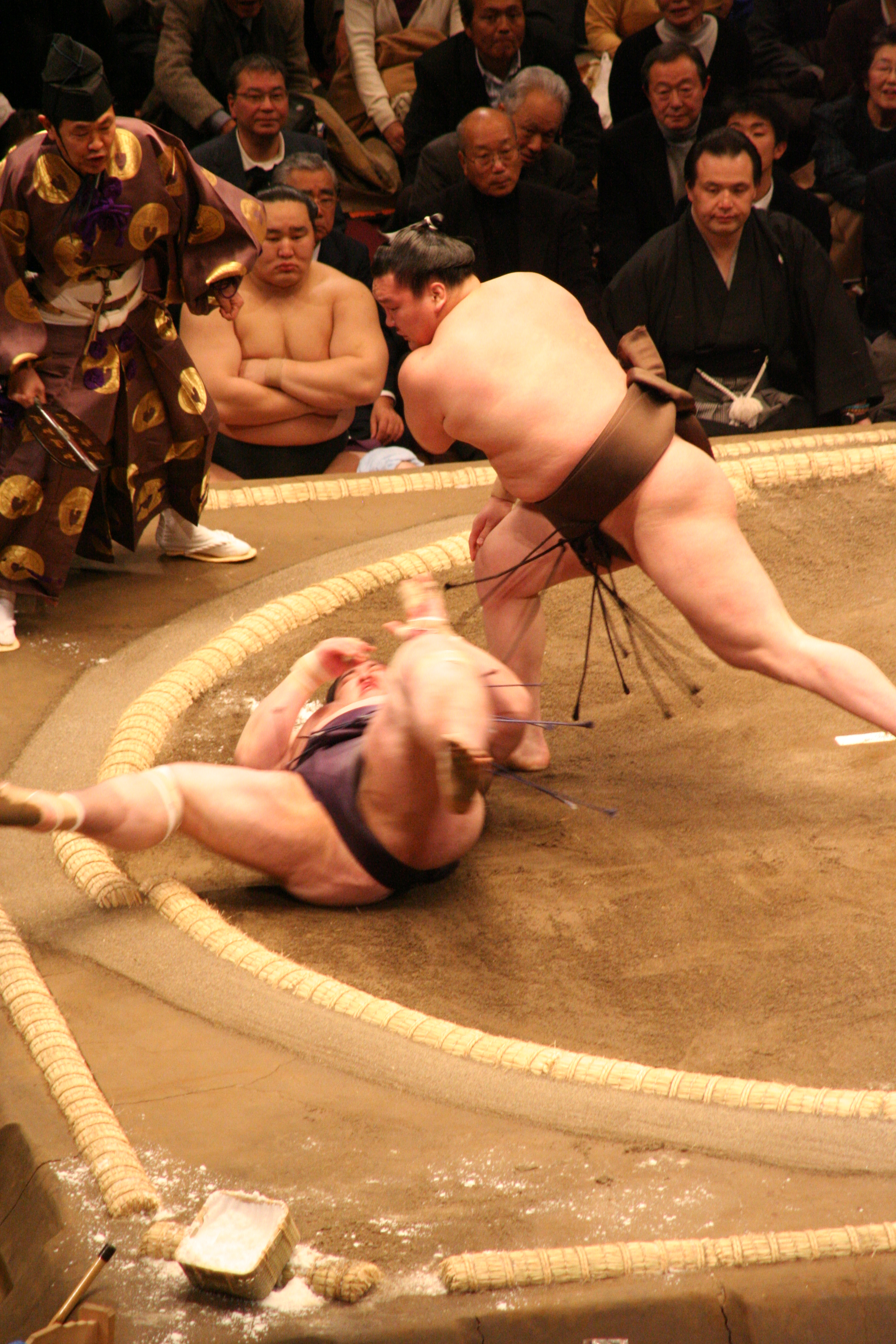 Sumo Wrestler Hakuhō Shō beats Dejima on the first day of the January tournament 2008